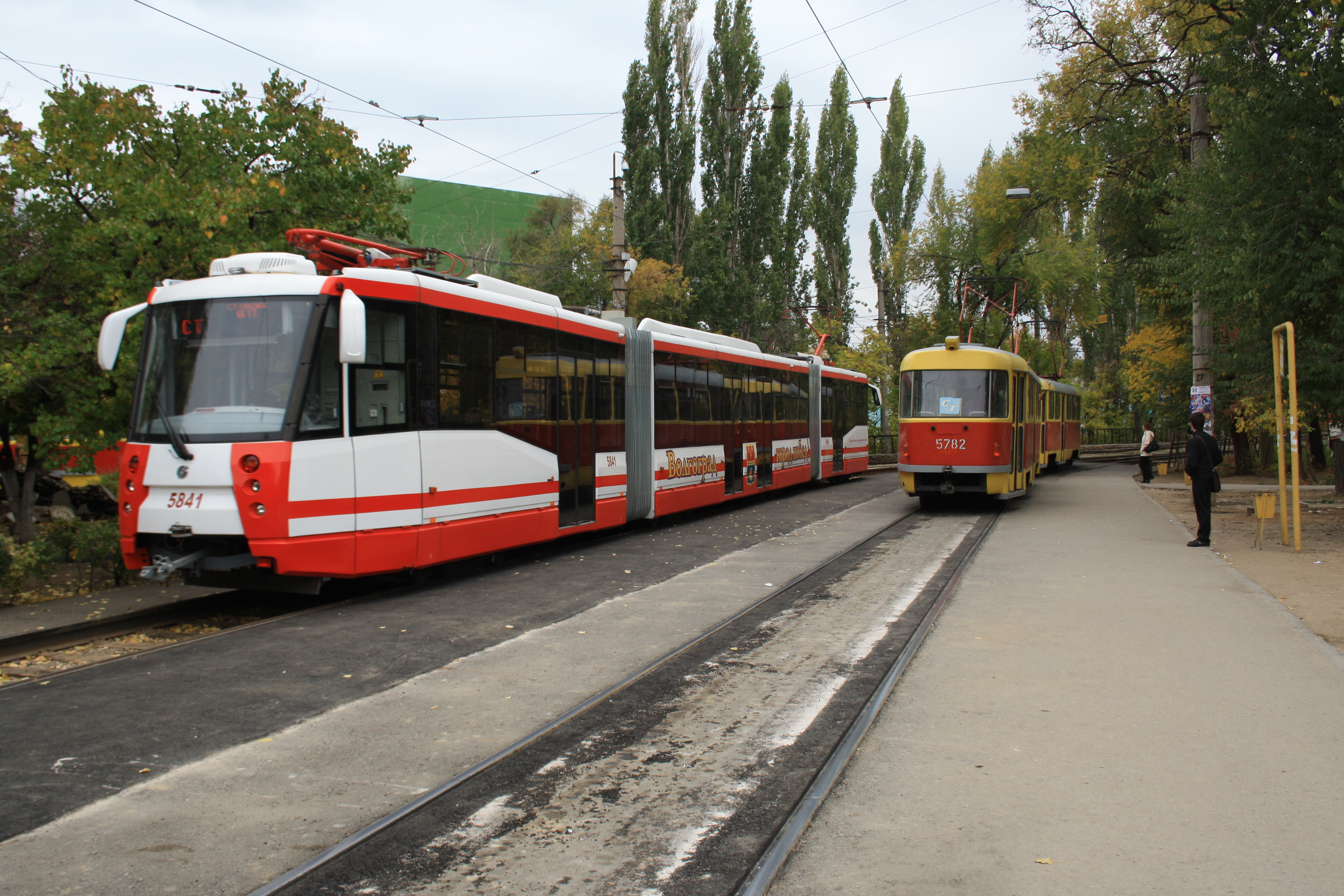 LVS-2009 № 5841 in Volgograd.